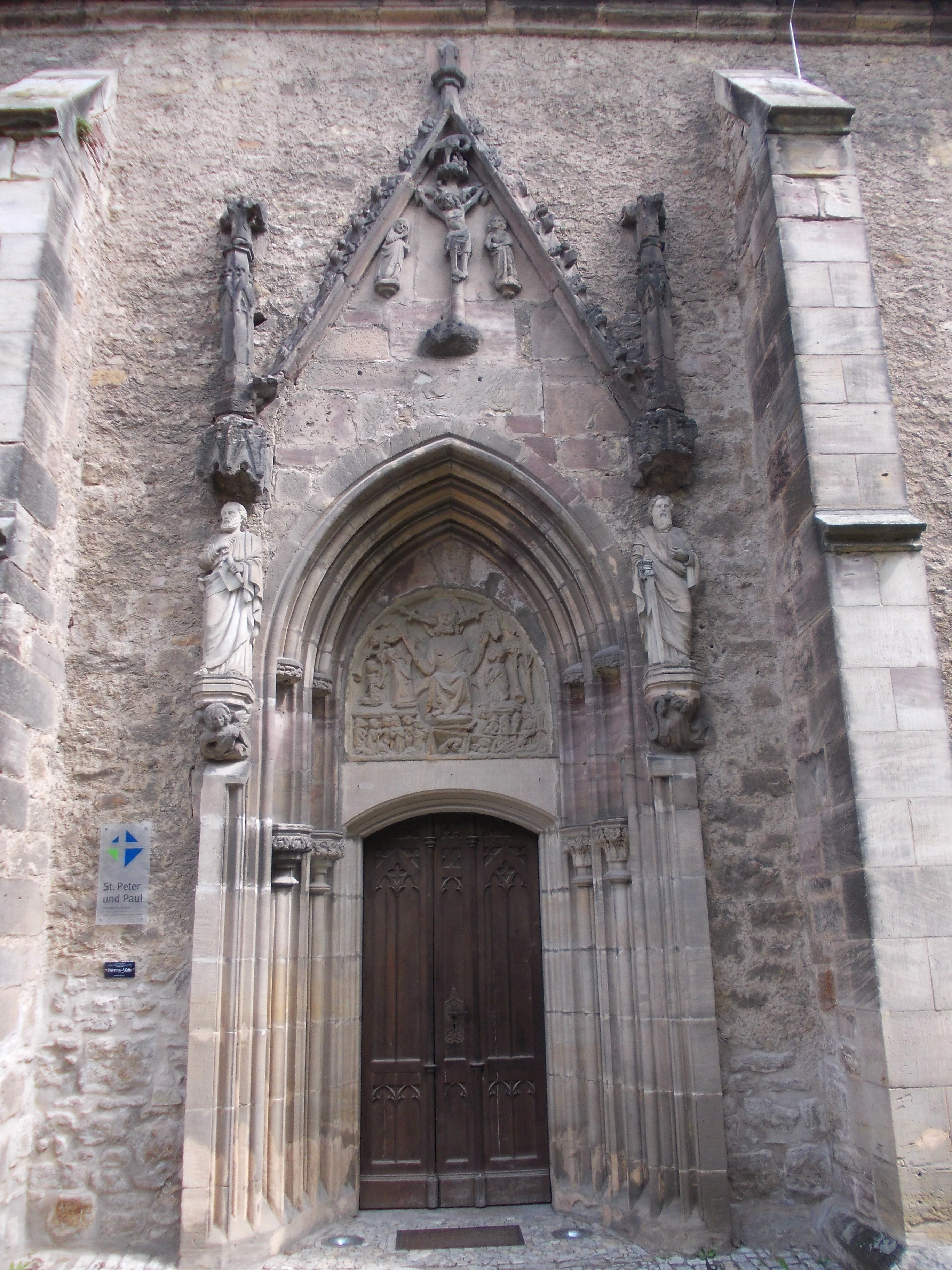 Main portal of St. Peter and Paul Church in Oberweimar (Weimar, Thuringia)